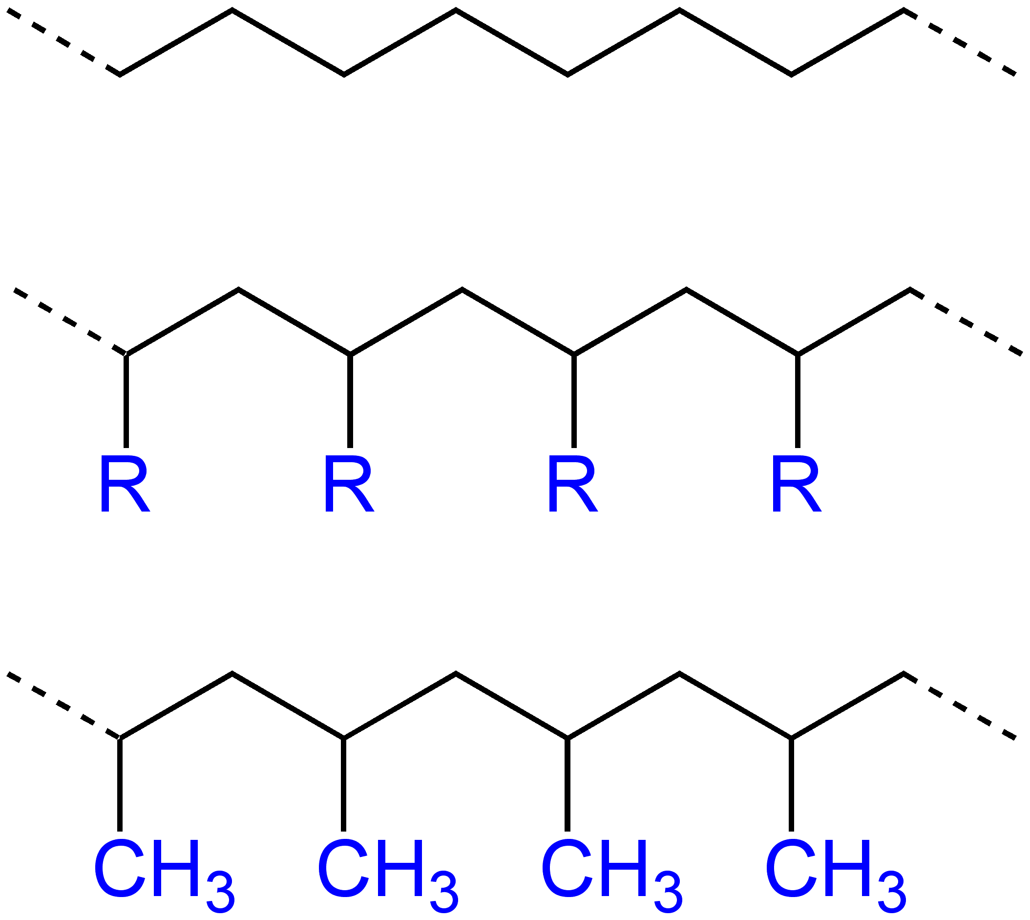 Polymers_Principle